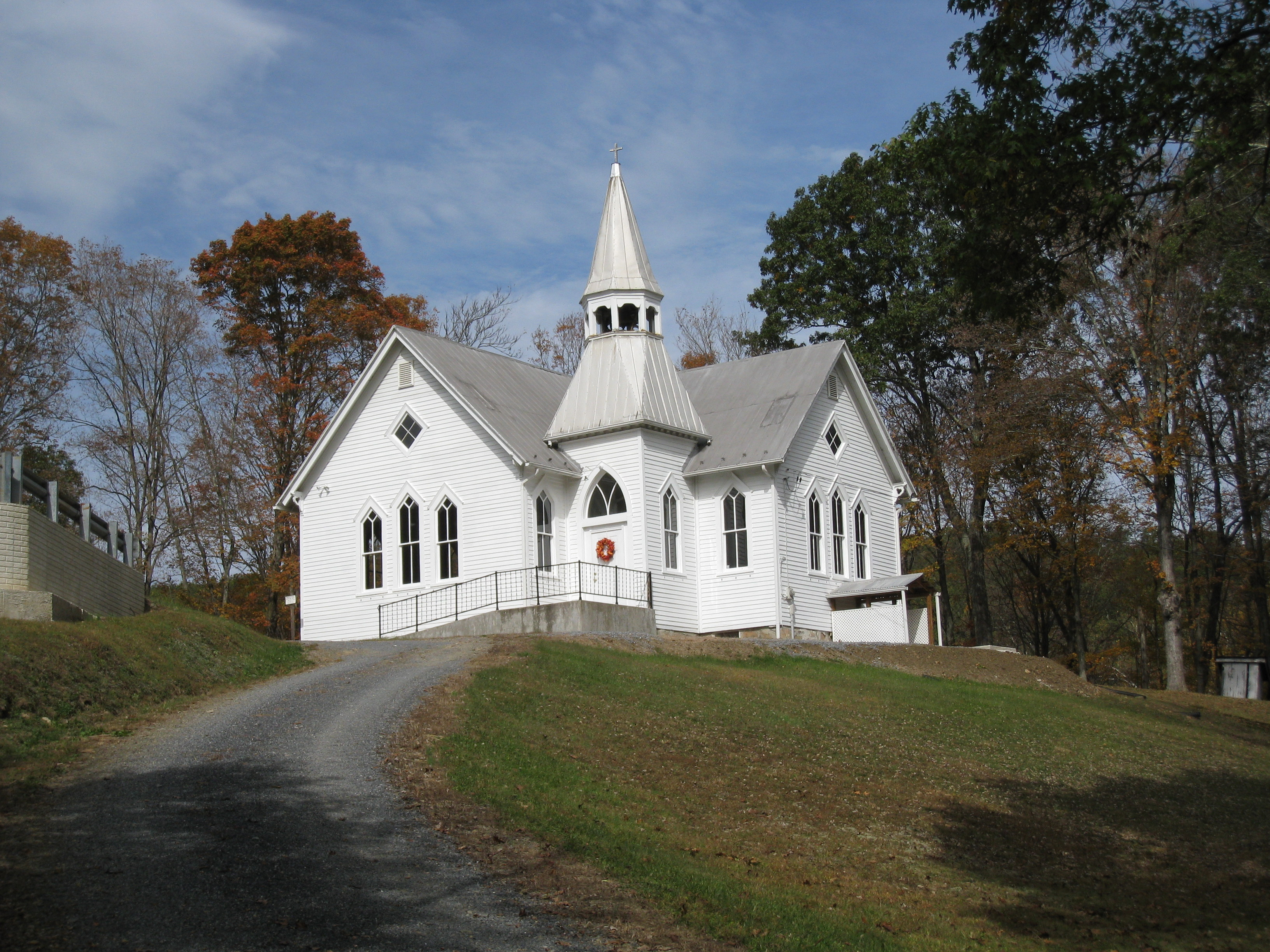 Bethel United Methodist Church along Spring Gap Road (County Route 2) near Neals Run, West Virginia, United States.